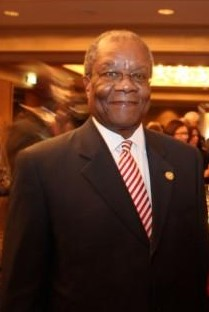 Cropped photograph of Barnabas Sibusiso Dlamini with Quentin Bryce at a Commonwealth Heads of Government Meeting in Perth on 27 October 2011